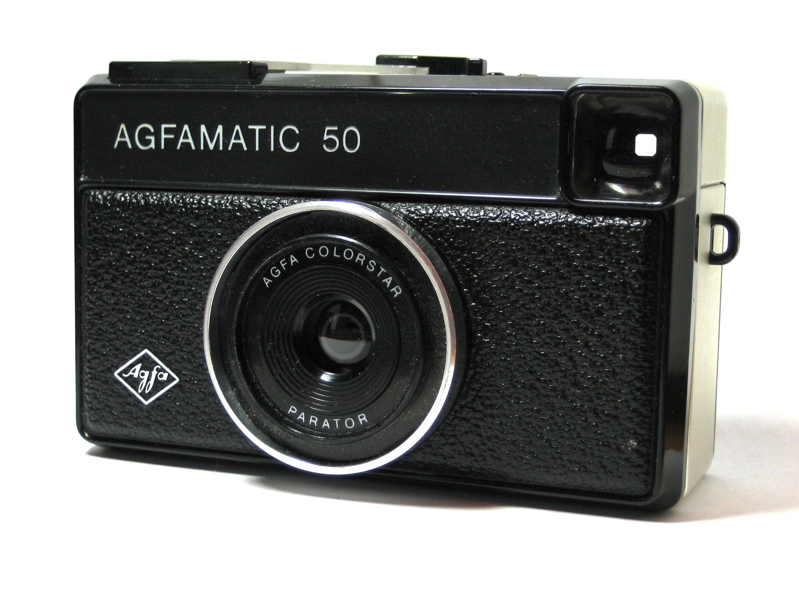 Agfamatic 50, manufactured in 1972 by the Agfa Camera-Werk company in Munich, Germany. This camera utilizes Afga 126 Cassette film, has a fixed f/11, 40.6 mm lens and shutter speed of 1/40 or 1/80 when using flash. The flash type used is a disposable Magicube X flash cartridge. During the 1970's these cameras were extremely popular, and several hundred models of Agfamatic cameras were manufactured. Today, such cameras sell for as little as $5 or as much as $15 and often can be found at garage or street sales.